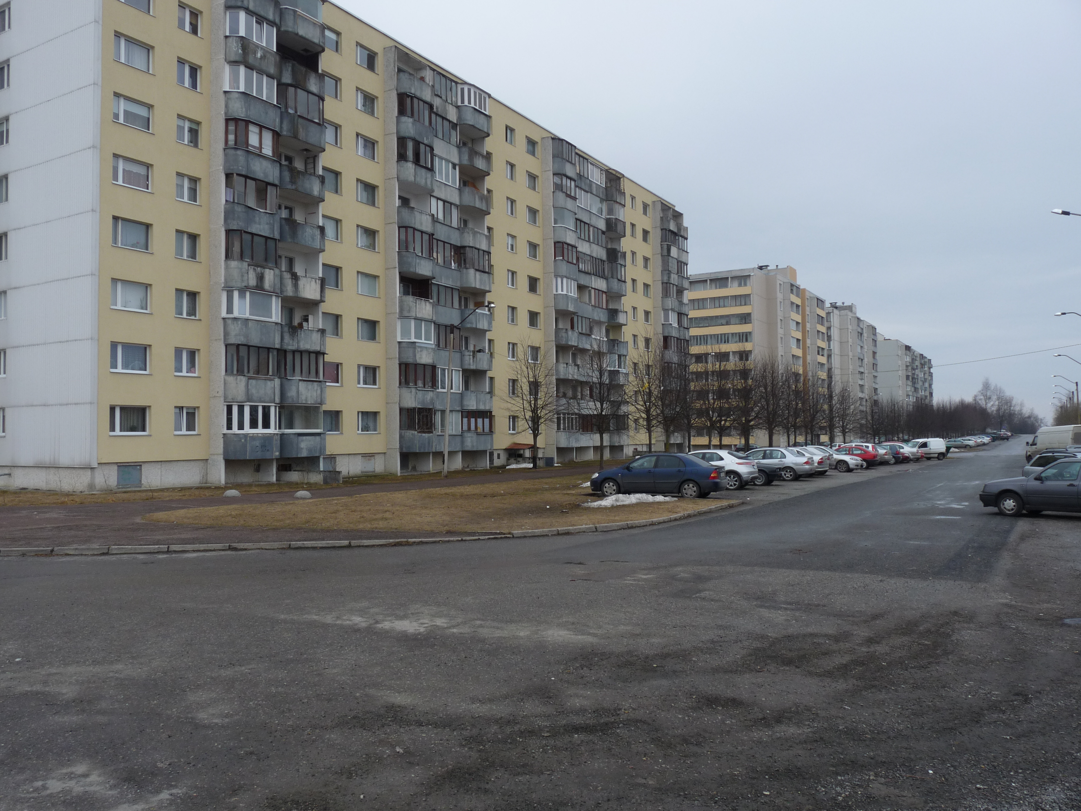 Tondiraba street in Tallinn